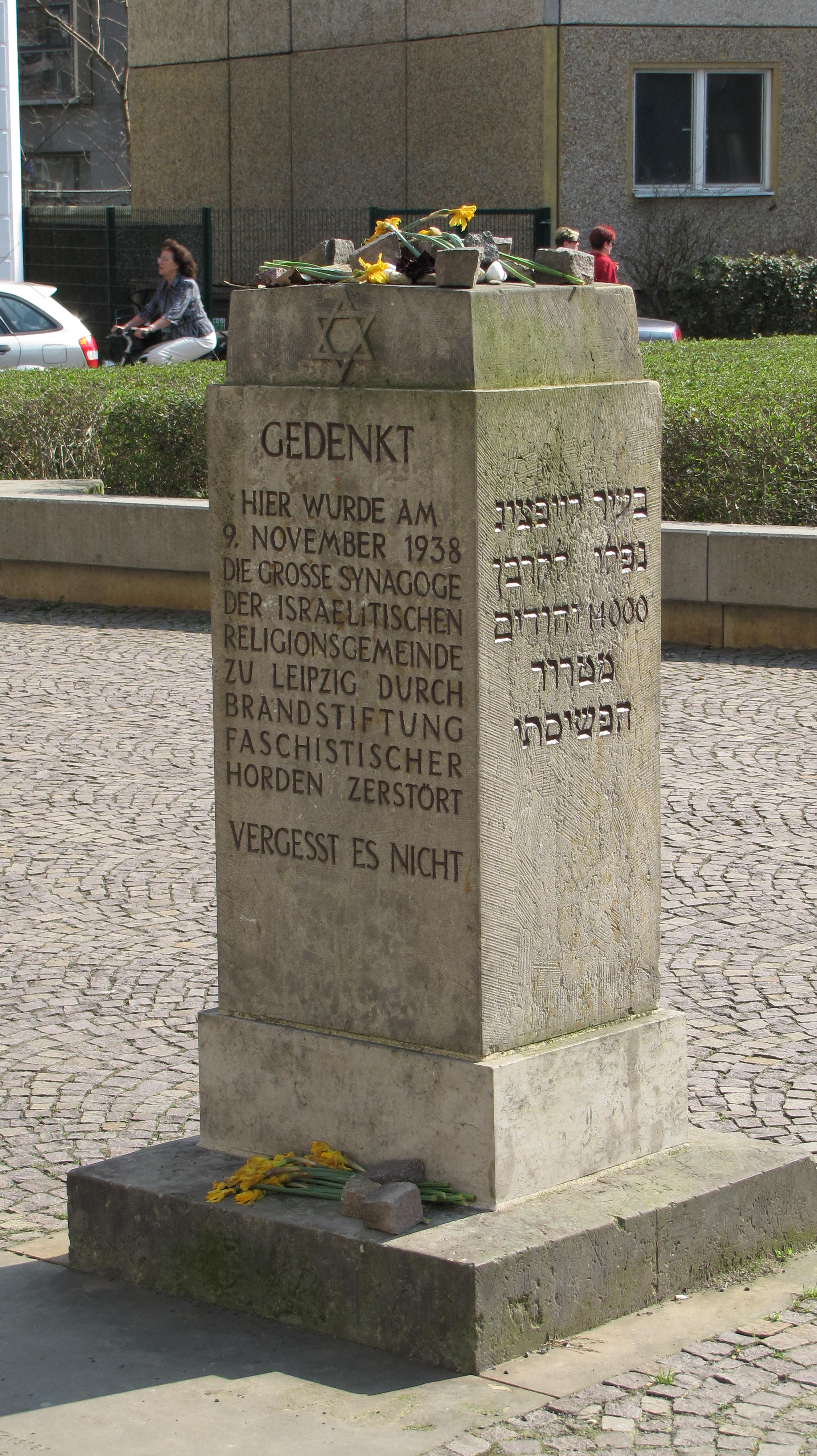 Synagogue Memorial in Leipzig, Gottschedstrasse